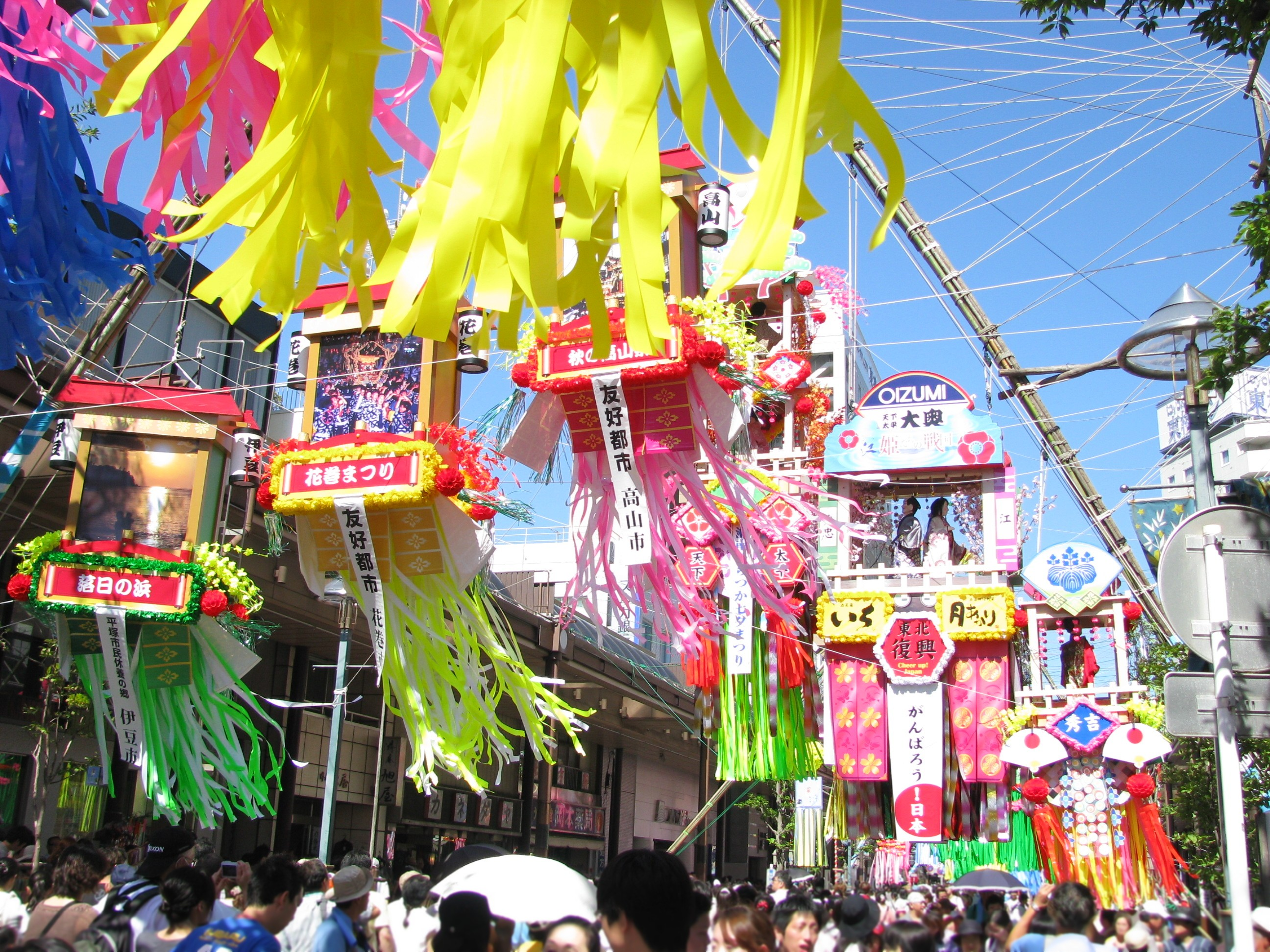 Syonan Hiratsuka Tanabata Matsuri. This location is in Hiratsuka, Kanagawa Prefecture, Japan.